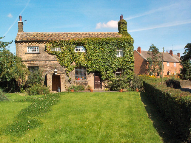 Carlton Church. In East Carlton village, this unostentatious former church is now a private house.